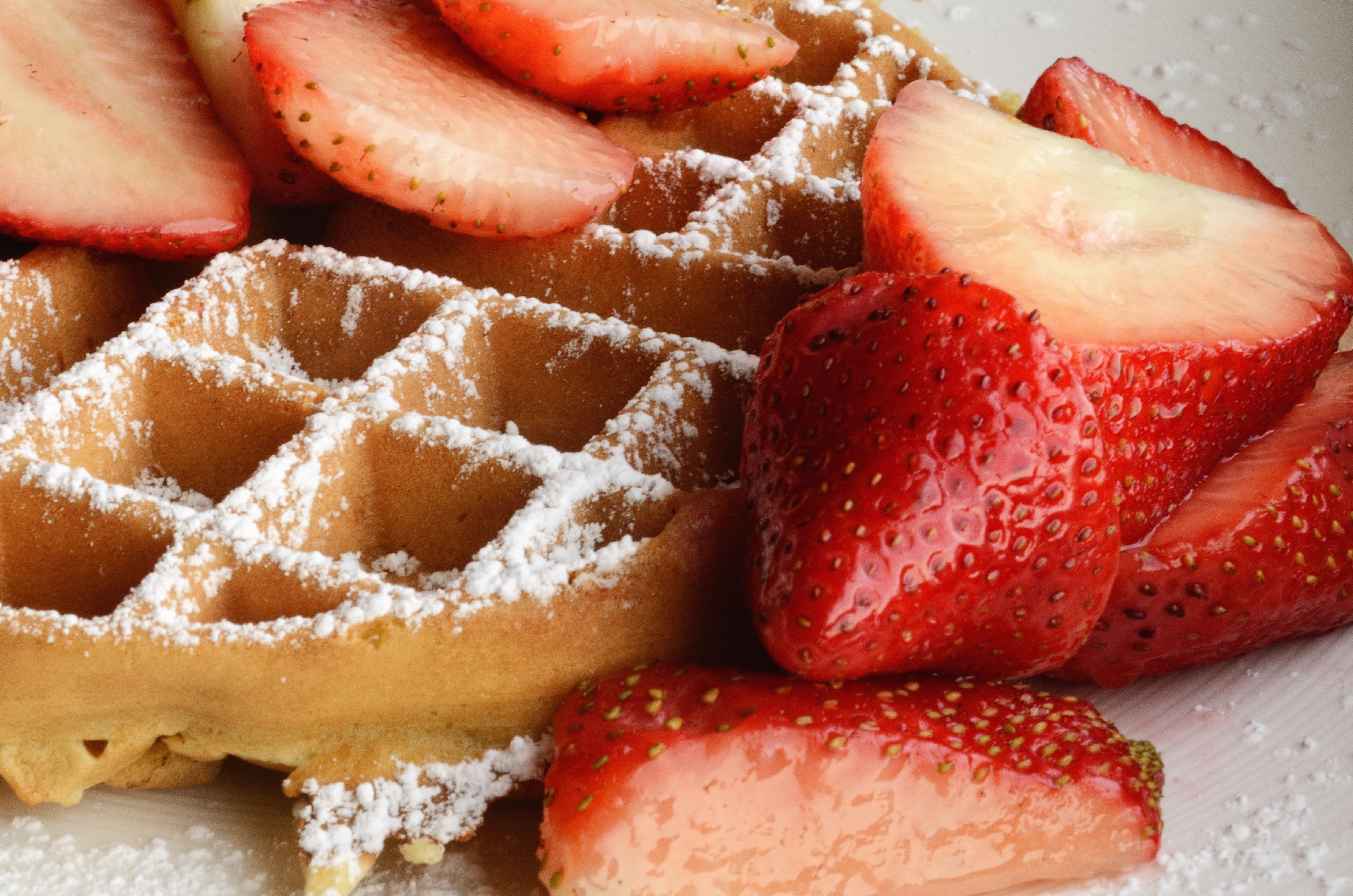 On Thursday Jenny had a Belgian waffle for breakfast in our room. I moved the waffle to the window ledge for the photo using a Gorillapod SLR Zoom for long exposure for depth of field. I had about 30 seconds to do this before Jenny wanted her waffle back.